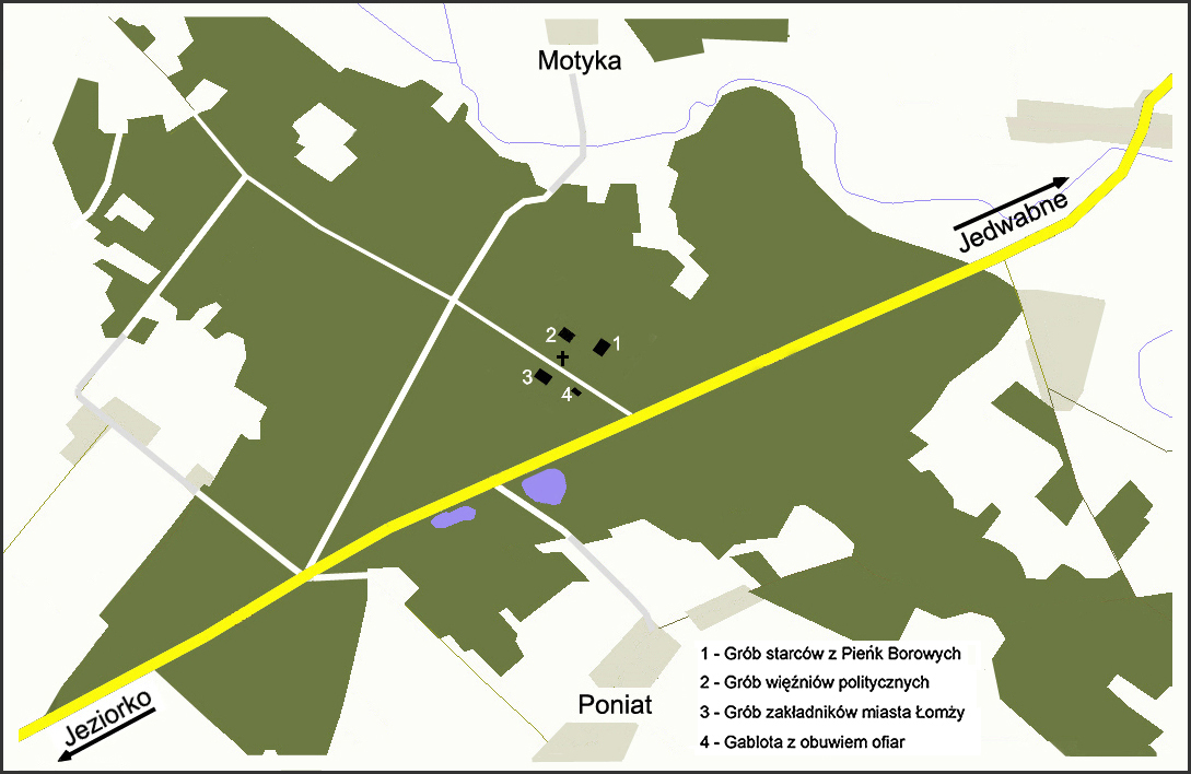 Site map of Jeziorko cemetery of Nazi victims